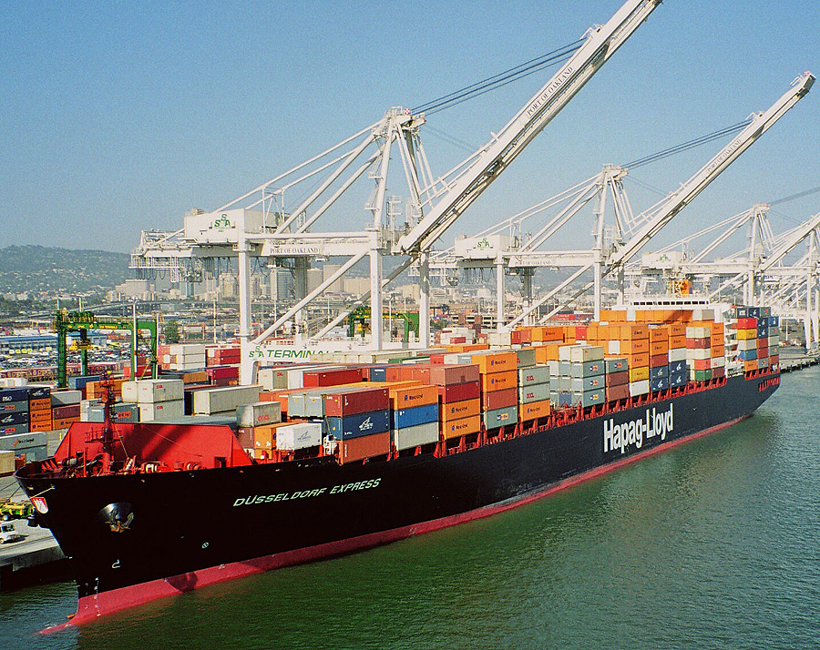 Düsseldorf Express (IMO 9143556), a Hapag-Lloyd ship at the Port of Oakland, California. Information about Düsseldorf Express may be found at IMO 9143556. A ship can change her name and flag state through time, but the IMO number remains the same through the hull's entire lifetime. Therefore, it's useful to identify a ship through her IMO number.